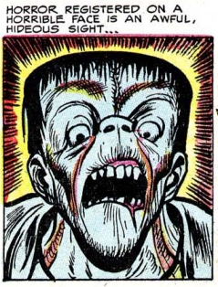 Panel from issue #32 of Dick Briefer's Frankenstein comic book (1954).